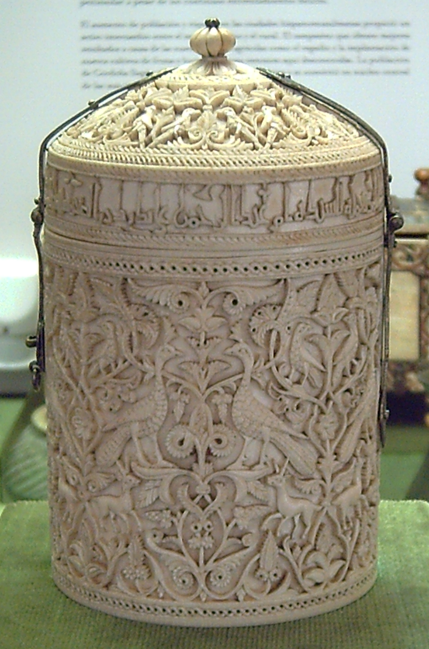 Jewel box. Caliphal artwork.